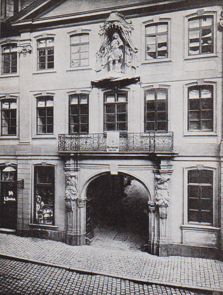 Photograph of the former Building "König von England", Frankfurt am Main, Fahrgasse 94. The Building was demolished 1891. 1879 until 1889 the building was used by the Oberlandesgericht Frankfurt am Main